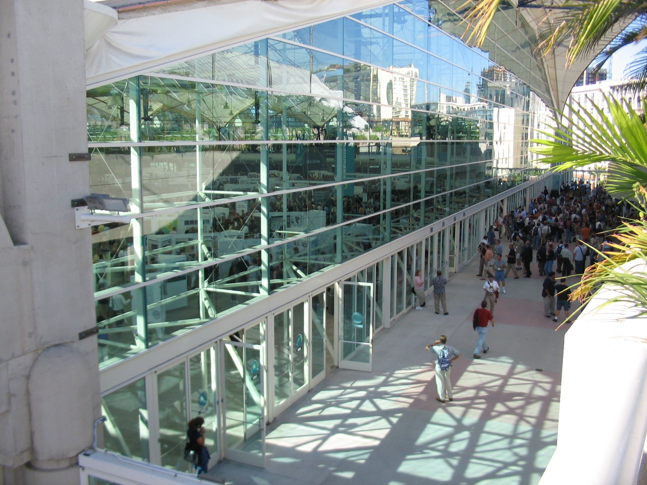 ESRI Headquarters in Redlands, California - Info